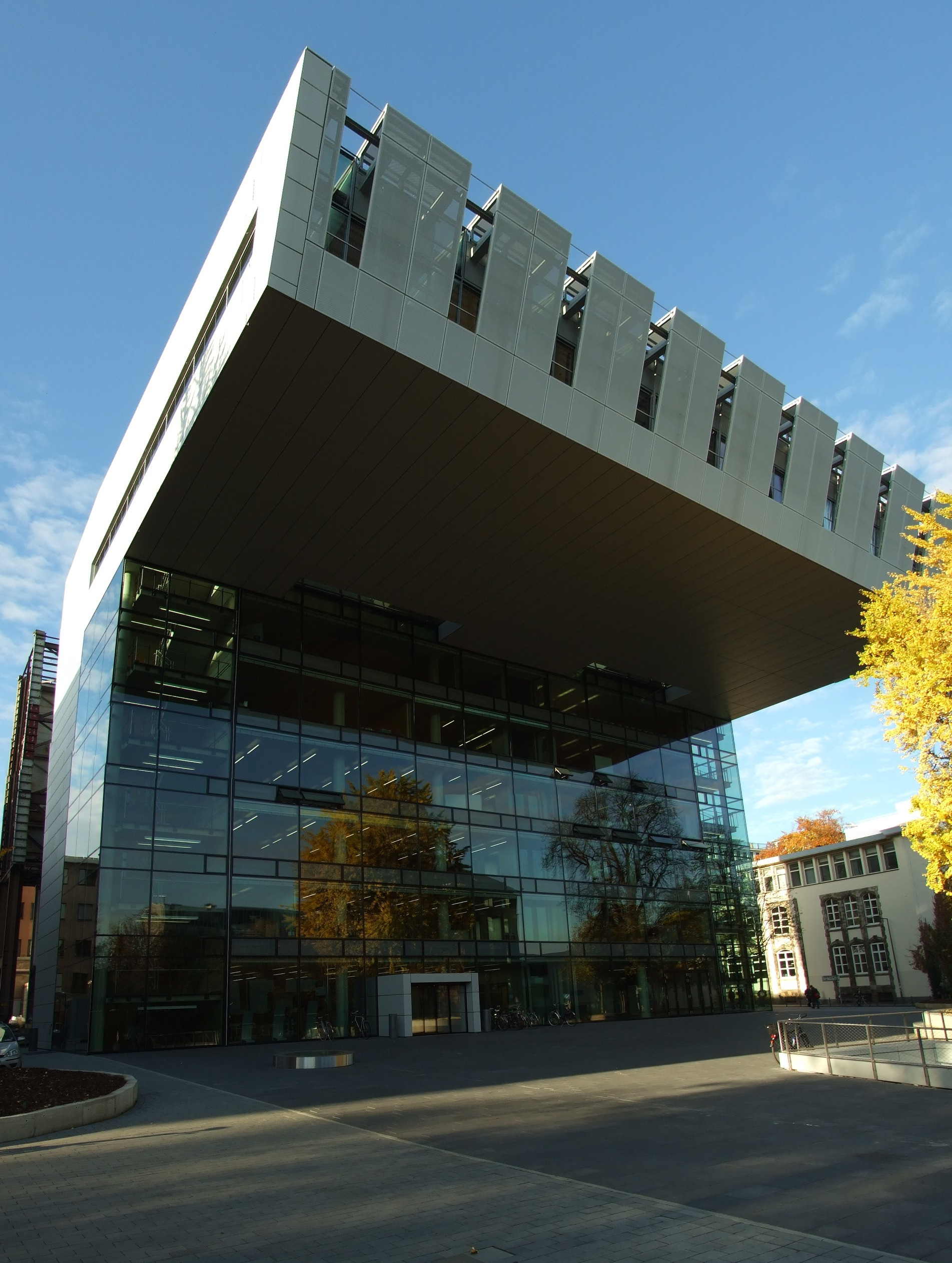 SuperC at the RWTH Aachen University (Rhenish-Westphalian Technical University Aachen)